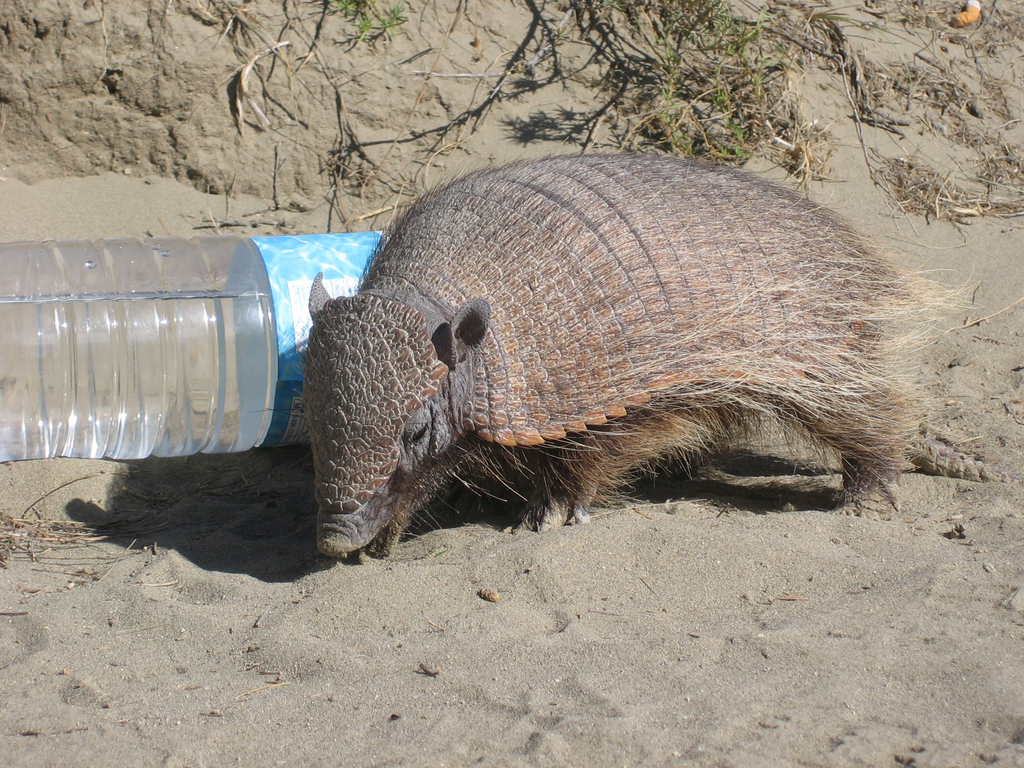 Chaetophractus villosus